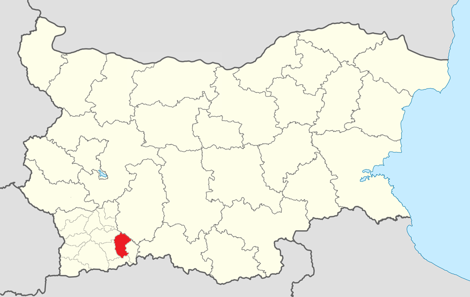 Location map of Garmen Municipality within Bulgaria and Blagoevgrad province